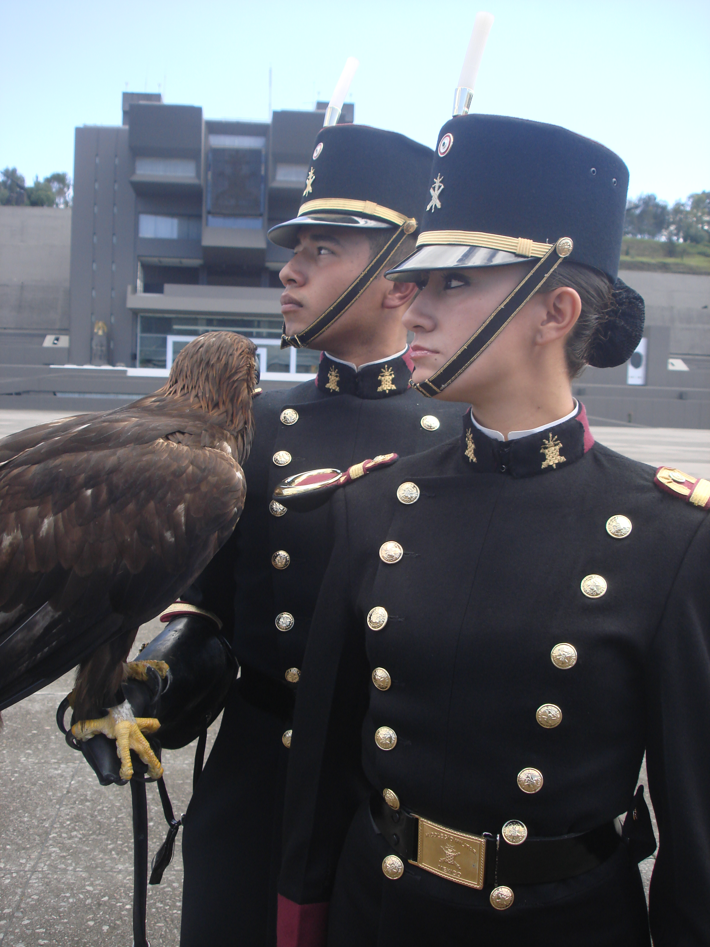 Cadets of the National Military College of Mexico holding the eagle mascot.